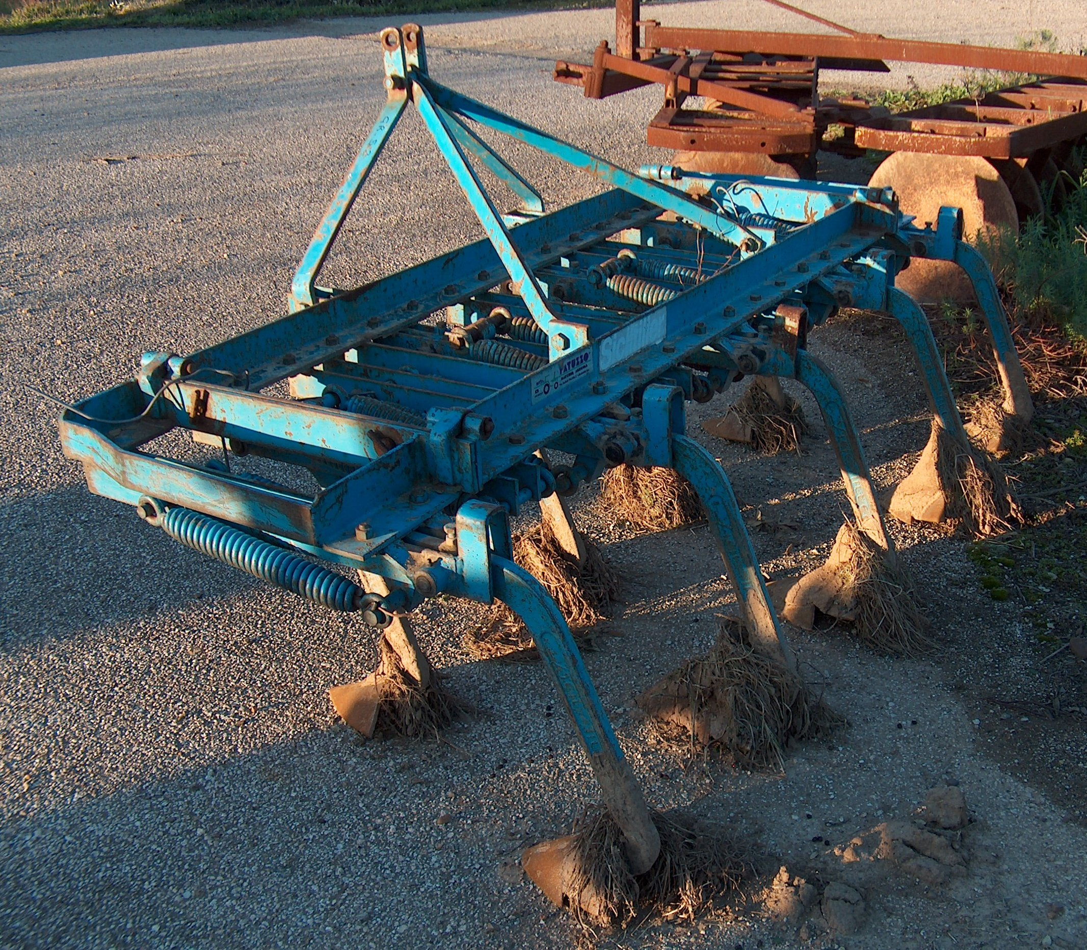 Cultivator – Professional Institute of Agriculture and Environment "Cettolini" of Cagliari (Sardinia, Italy) – Associated School of Villacidro (Sardinia, Italy)